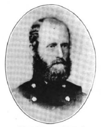 "Colonel Kenner Garrard; later Brig.-Gen. and Brevet Maj.-Gen." Portrait of Kenner Garrard of the 146th New York Volunteer Infantry, American Civil War.